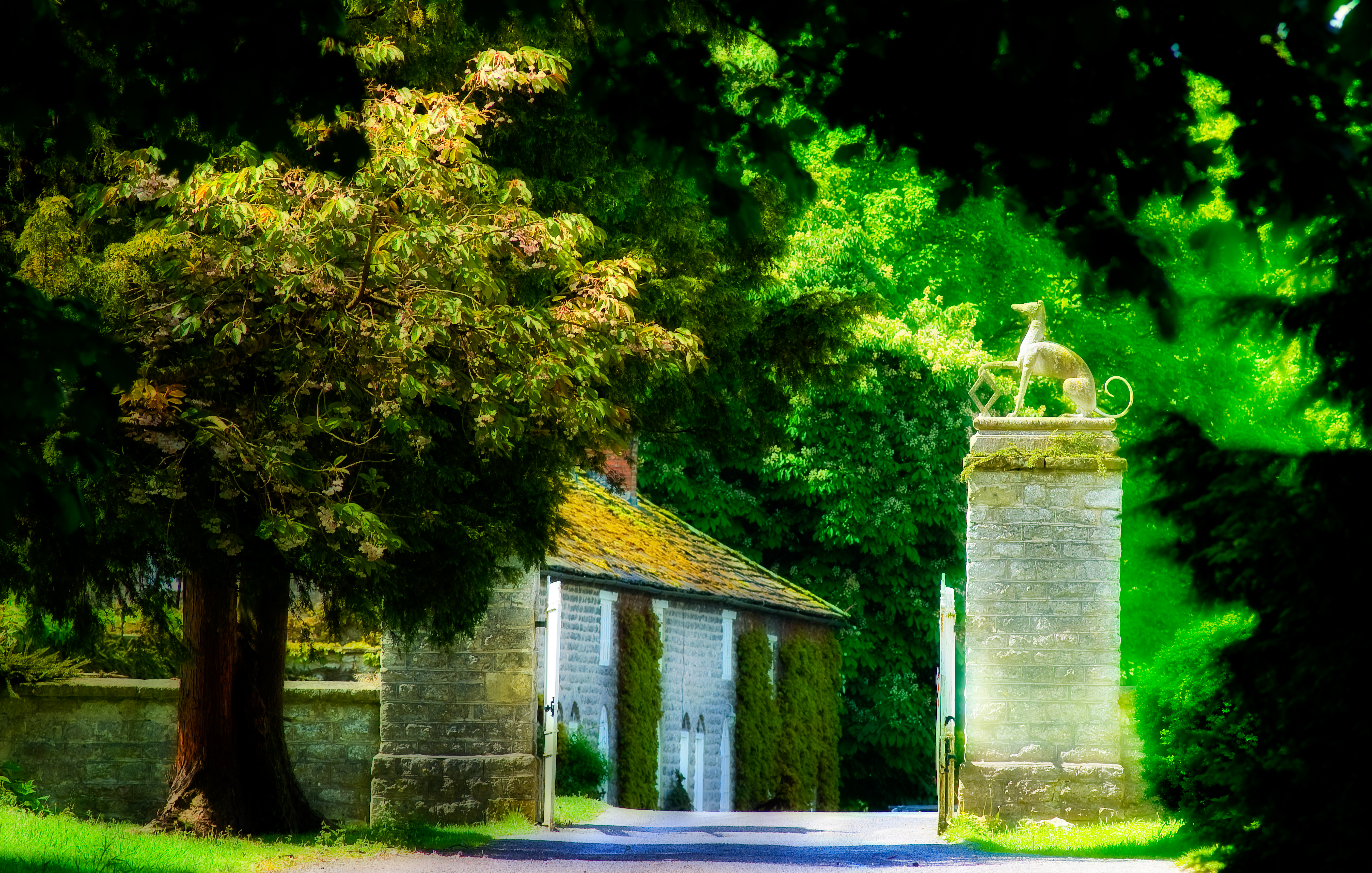 The magnificent gates at Woodleigh School, Langton Hall, Langton. Taken in May 2009. Become a fan on facebook